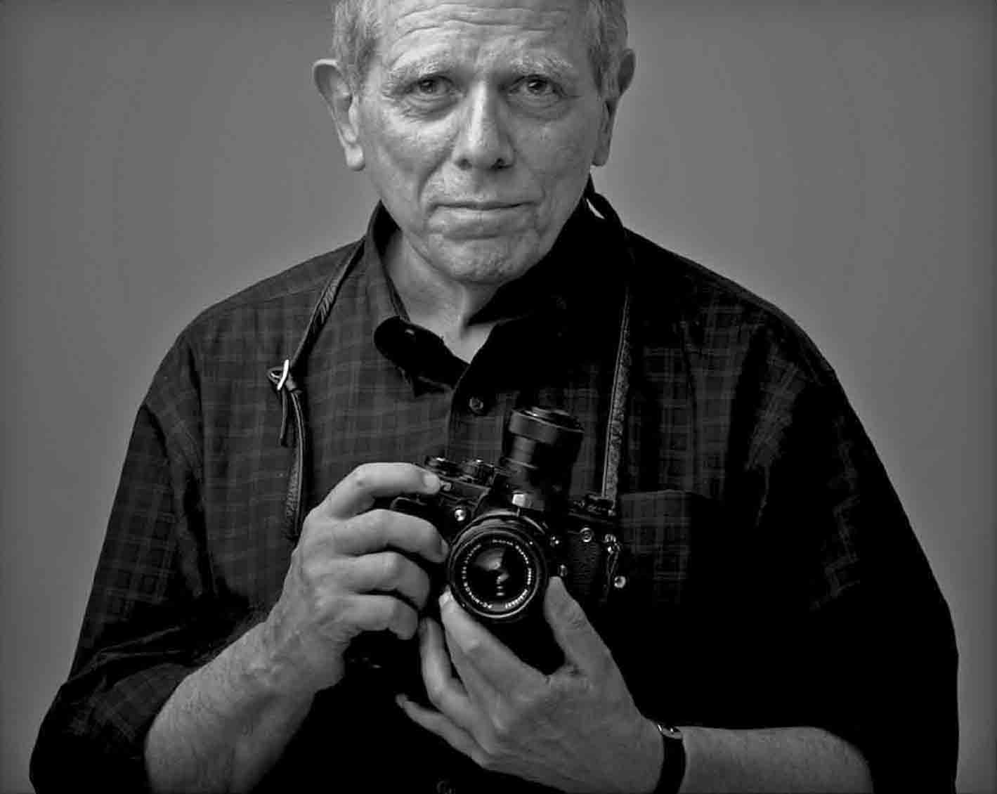 Photograph of John Loengard by Joe McNally, 2010